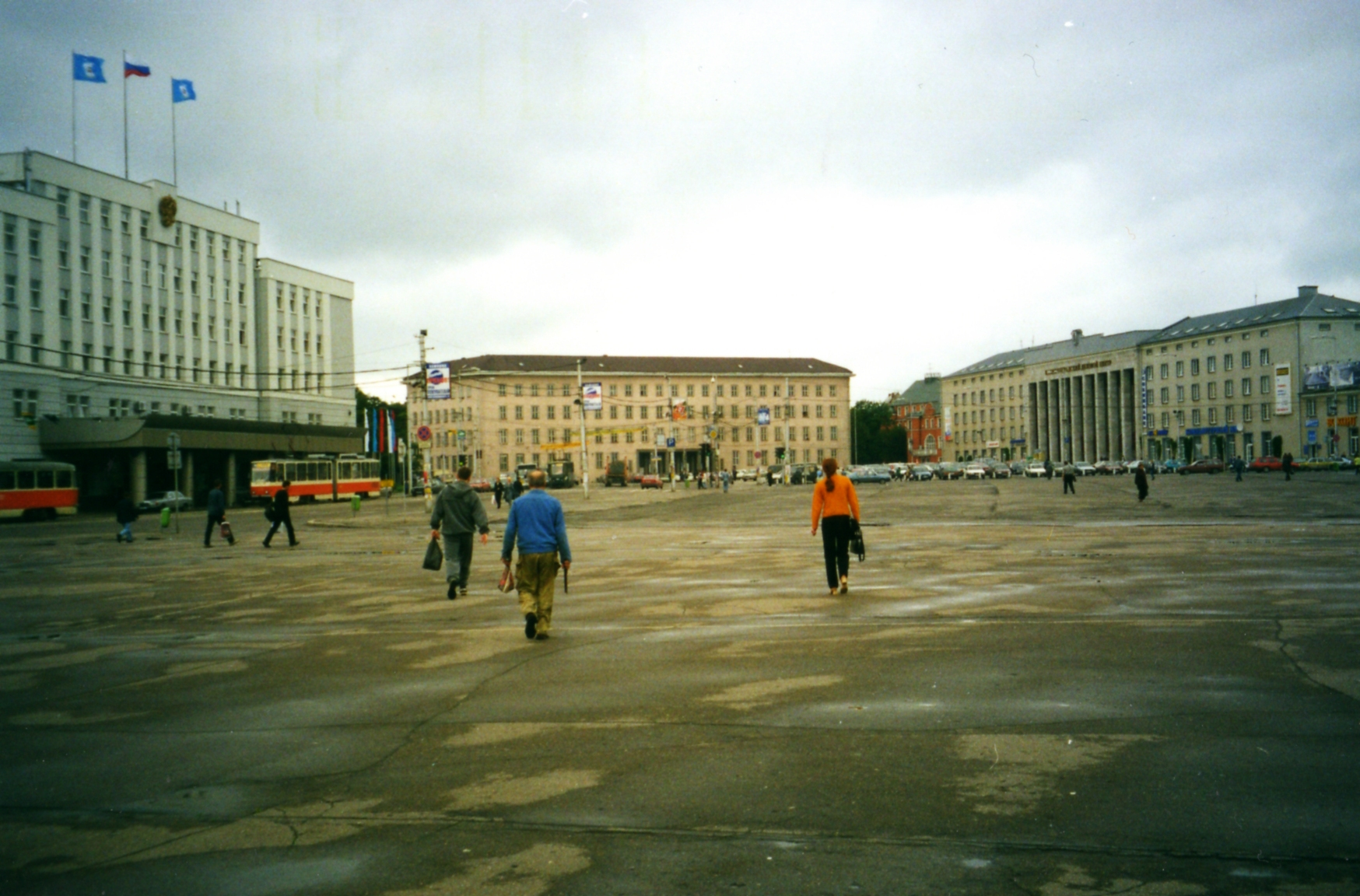 Pobedysquare before square reconstruction.